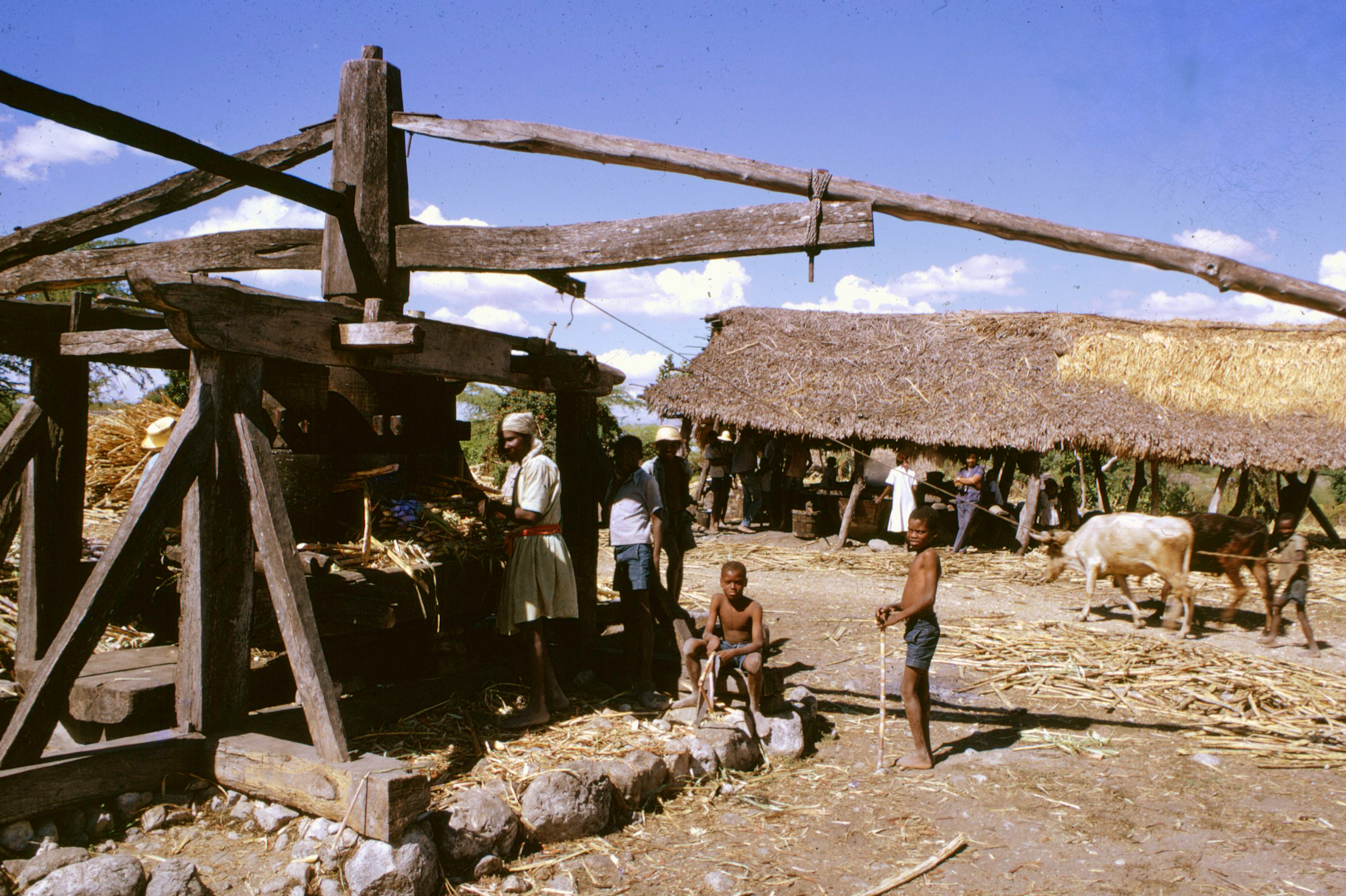 Sugar mill in the Plaine du Cul-de-Sac (Haïti) at Galette-Chambon